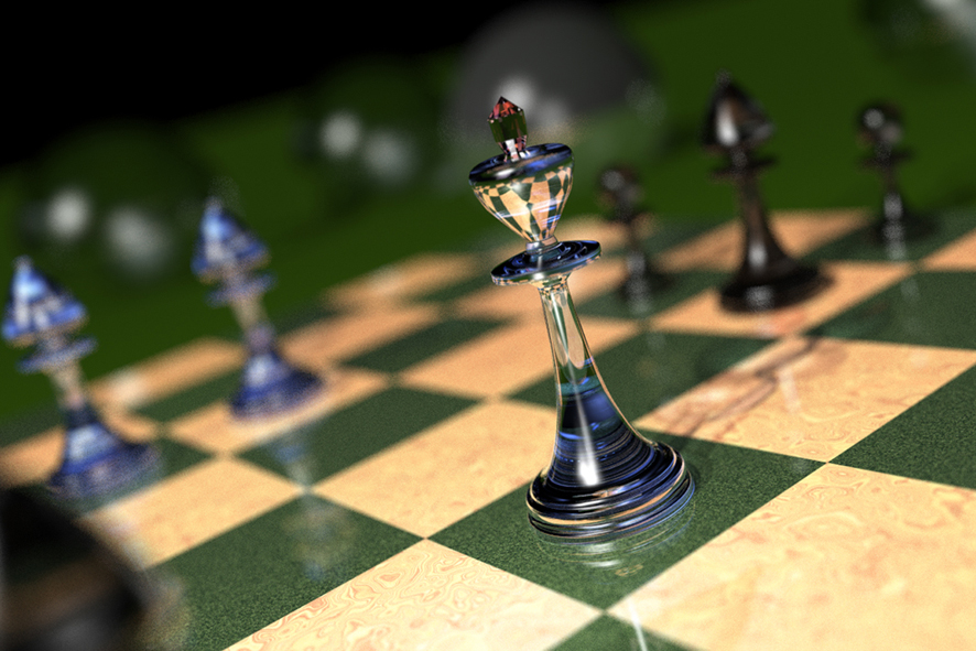 Sample of Bryce rendering